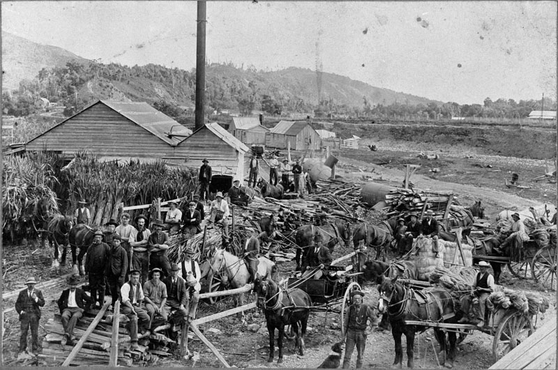 View of a mill for processing New Zealand flax ( Phormium tenax). Mill and buildings are top left, with bales of flax stacking upright against it. Top right is the rocky bed of the Waikanae river. Across the bottomw are the workers and horse drawn wagons that bought the flax to the mill.